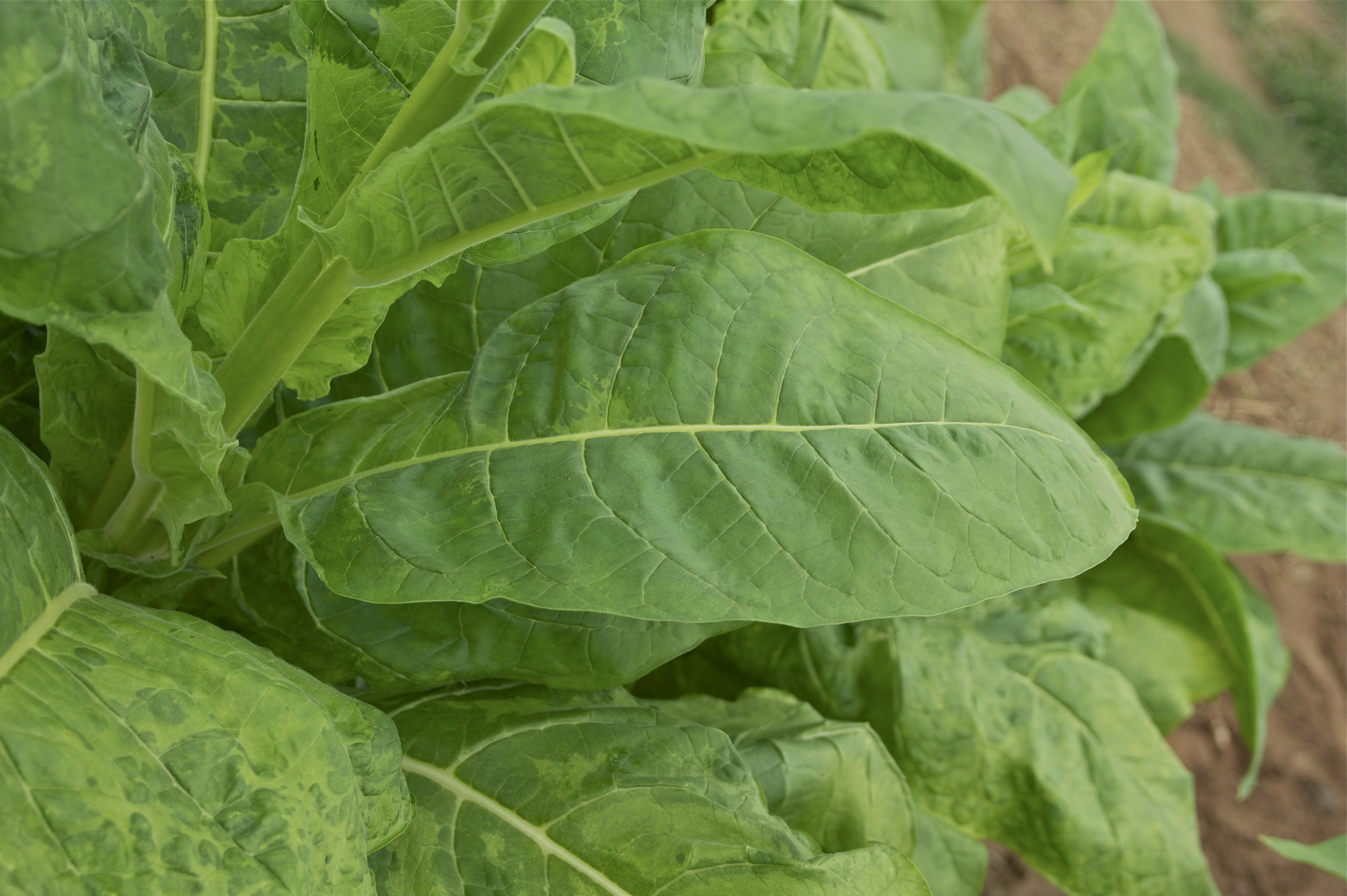 Nicotiana tabacum, tobacco, detail of a leaf in a field, Dordogne, France.